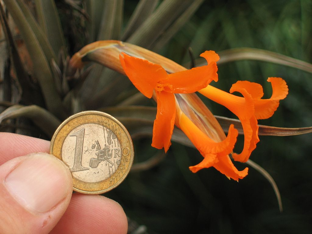 Tillandsia erici, in cultivation at the Botanical Garden of Heidelberg, Germany.